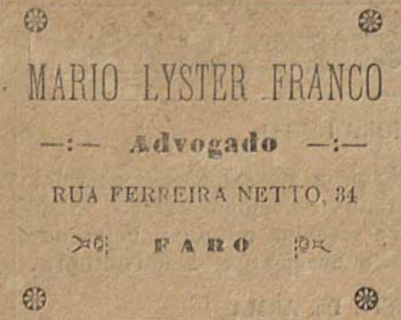 Advertisement to the lawyer Mário Lyster Franco, in the city of Faro, in Portugal. This image was published on the O Algarve newspaper No. 991, of the 3rd April 1927, scanned by the Hemeroteca Municipal de Lisboa.